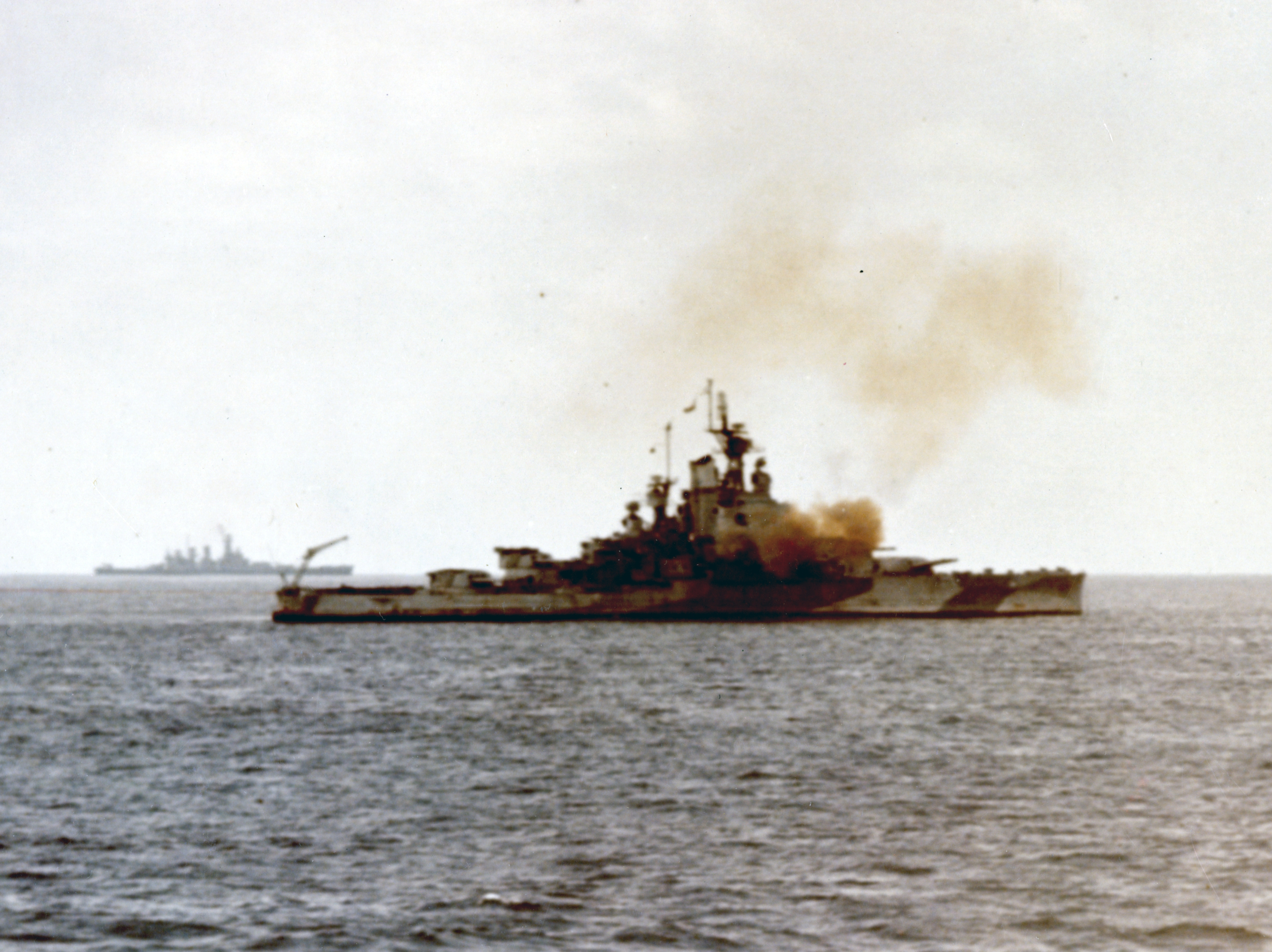 USS Nevada (BB-36) bombarding Iwo Jima, 19 February 1945. A North Carolina class battleship (probably USS Washington, BB-56) is in the left distance. Official U.S. Navy Photograph, now in the collections of the National Archives.